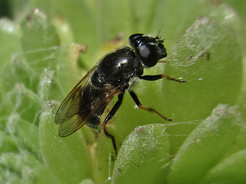 Cheilosia caerulescens (Syrphidae sp.) female, Arnhem, the Netherlands